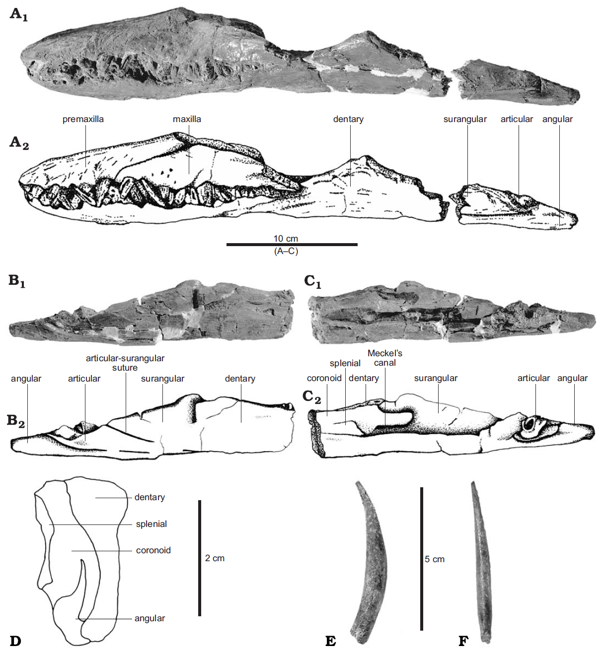 Cryonectes neustriacus MAE 2007.1.1(J), holotype; Upper Pliensbachian, Calvados, France